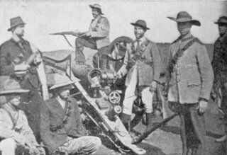 "15 pr 7 cwt BL on Mk III carriage - note the tangent sight mounted above the breech, and the elevating screw. This method of elevation had been in use for over 200 years". Comment : This appears to be a Boer propaganda photograph, with Boer commandos posing with a captured British gun.